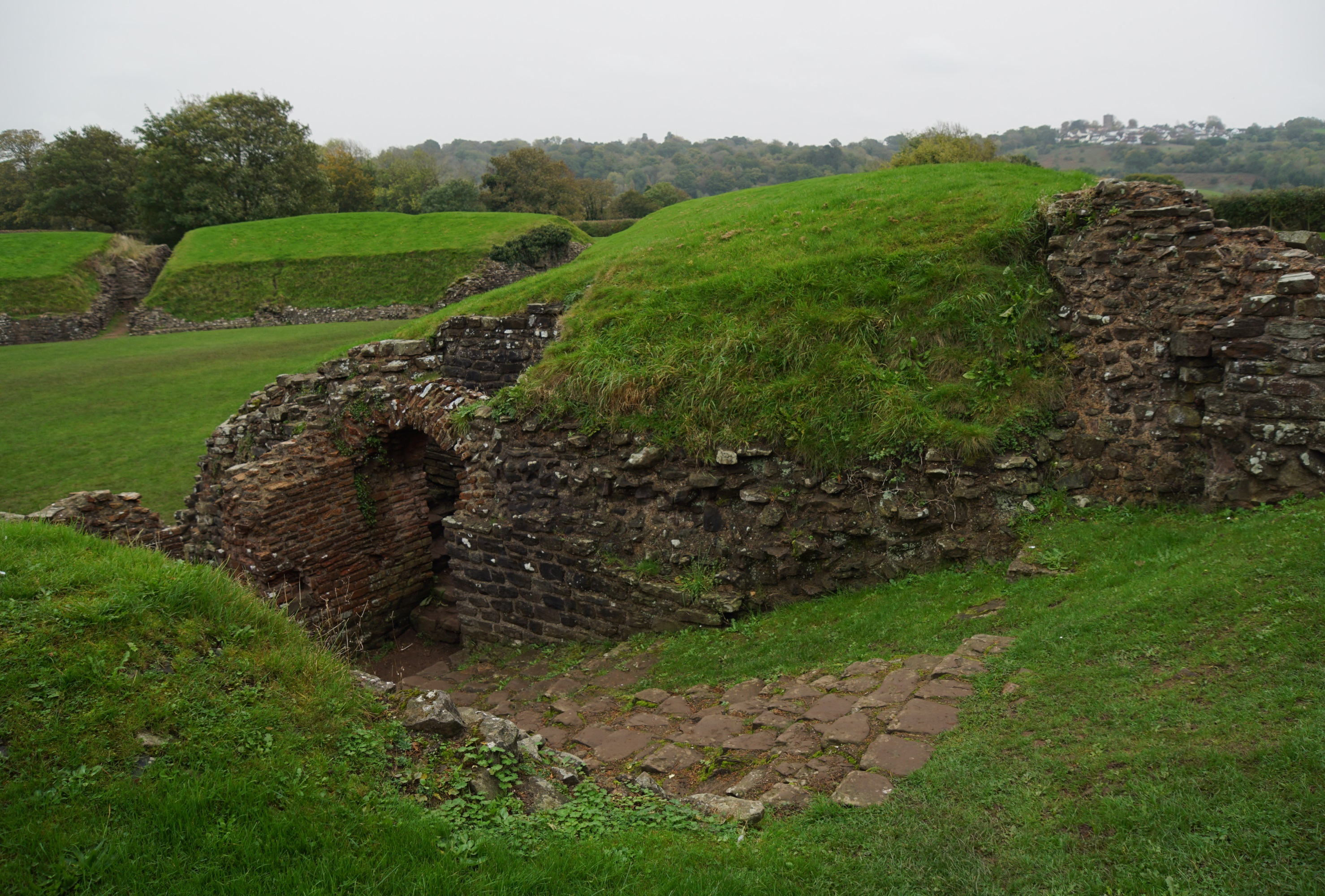 Caerleon Amphitheatre, Caerleon, Wales, United Kingdom. West entrance.